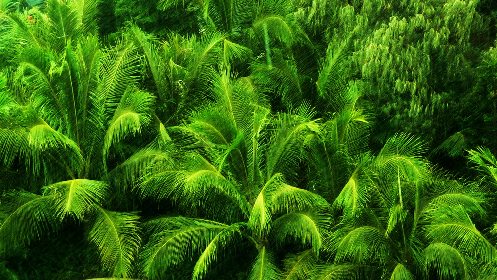 Typical vegetation of Nouméa